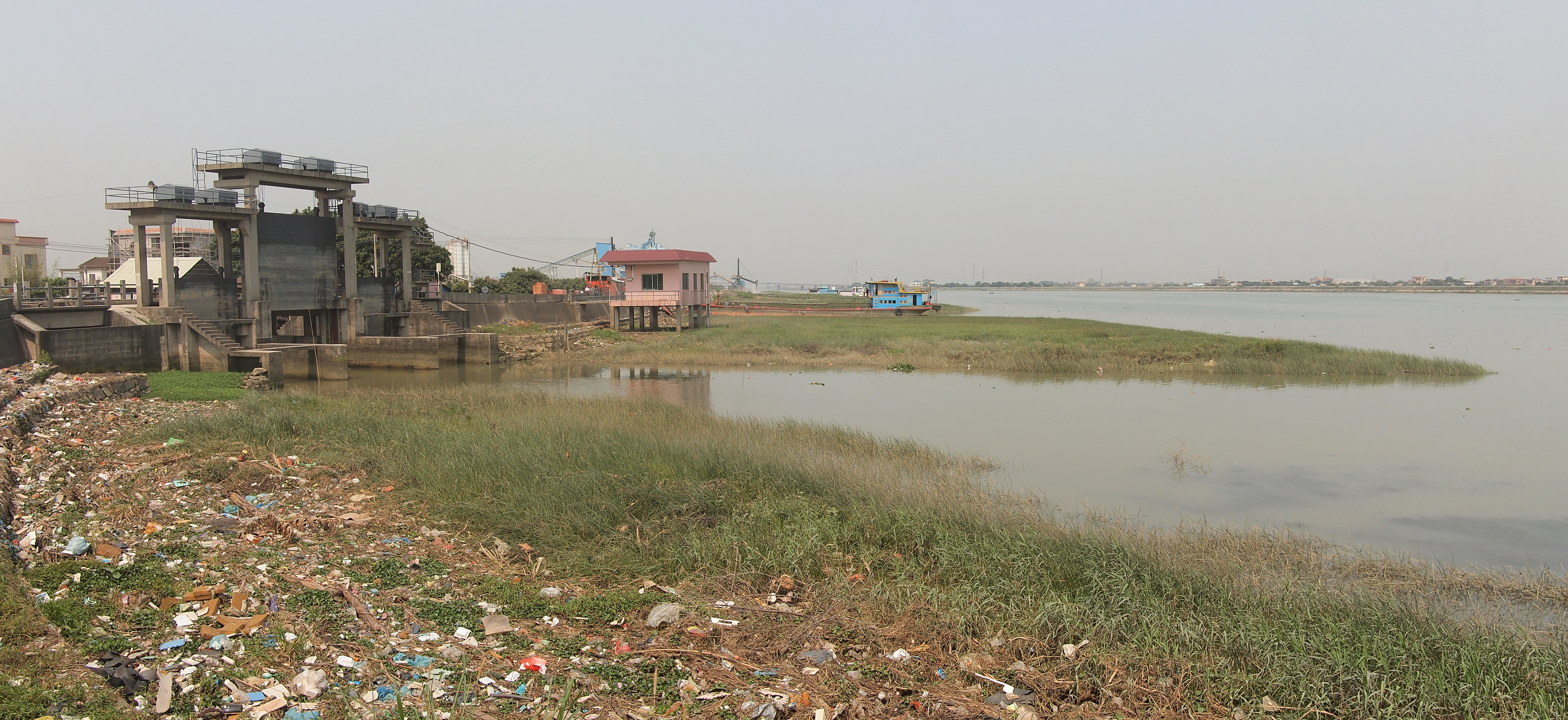 蕉门水道 - Jiaomeng Waterway - 2012.03